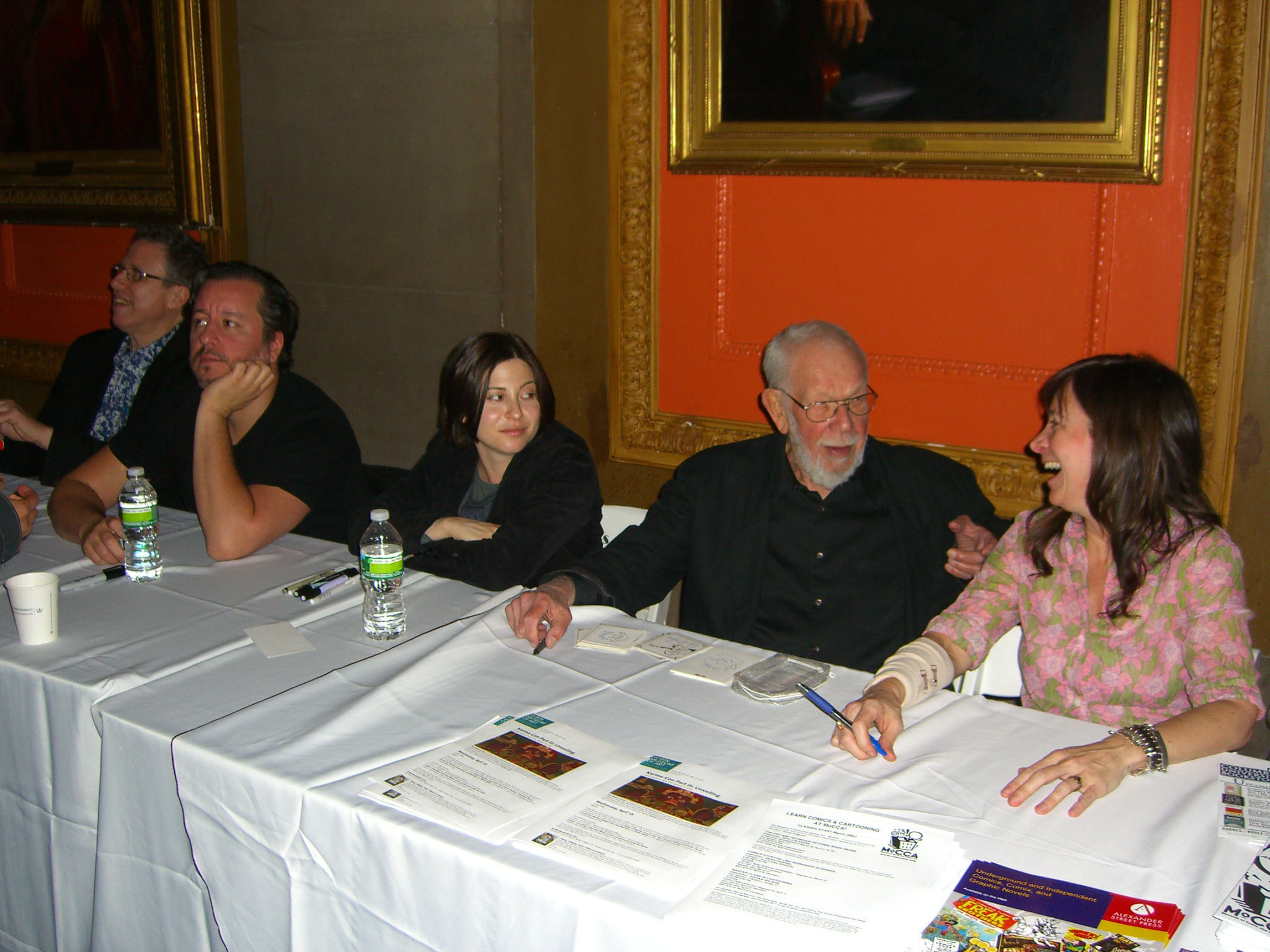 Comics creators signing books on March 24, 2012, the second of the two-day Comic New York symposium, which was held at Columbia University's Low Library. From left to right are creators Danny Fingeroth, Dean Haspiel, Miss Lasko-Gross, Al Jaffee and Tracy White. This photo was created by Luigi Novi. It is not in the public domain, and use of this file outside of the licensing terms is a copyright violation.